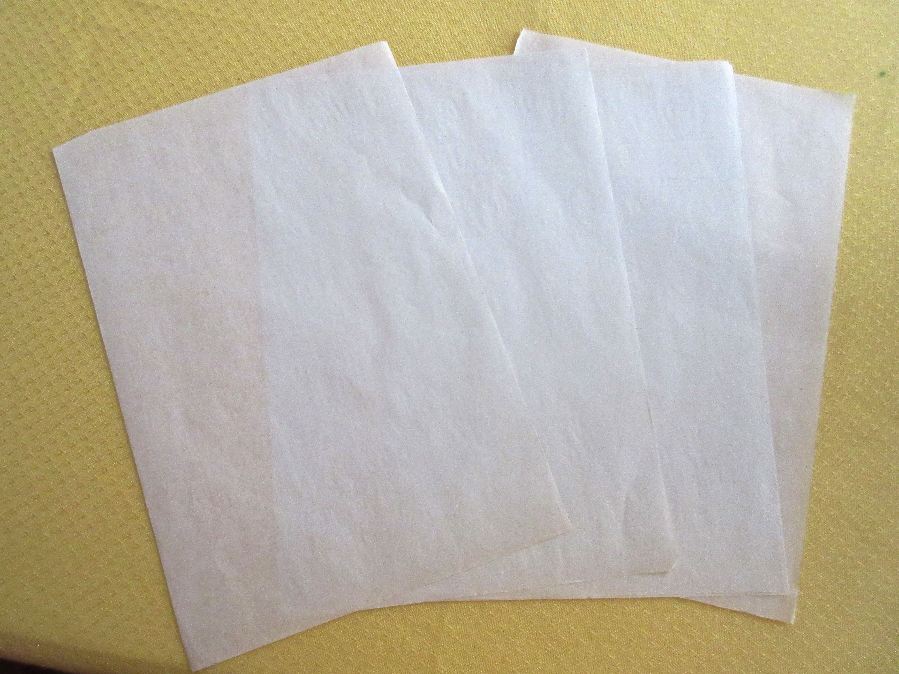 Tissue paper